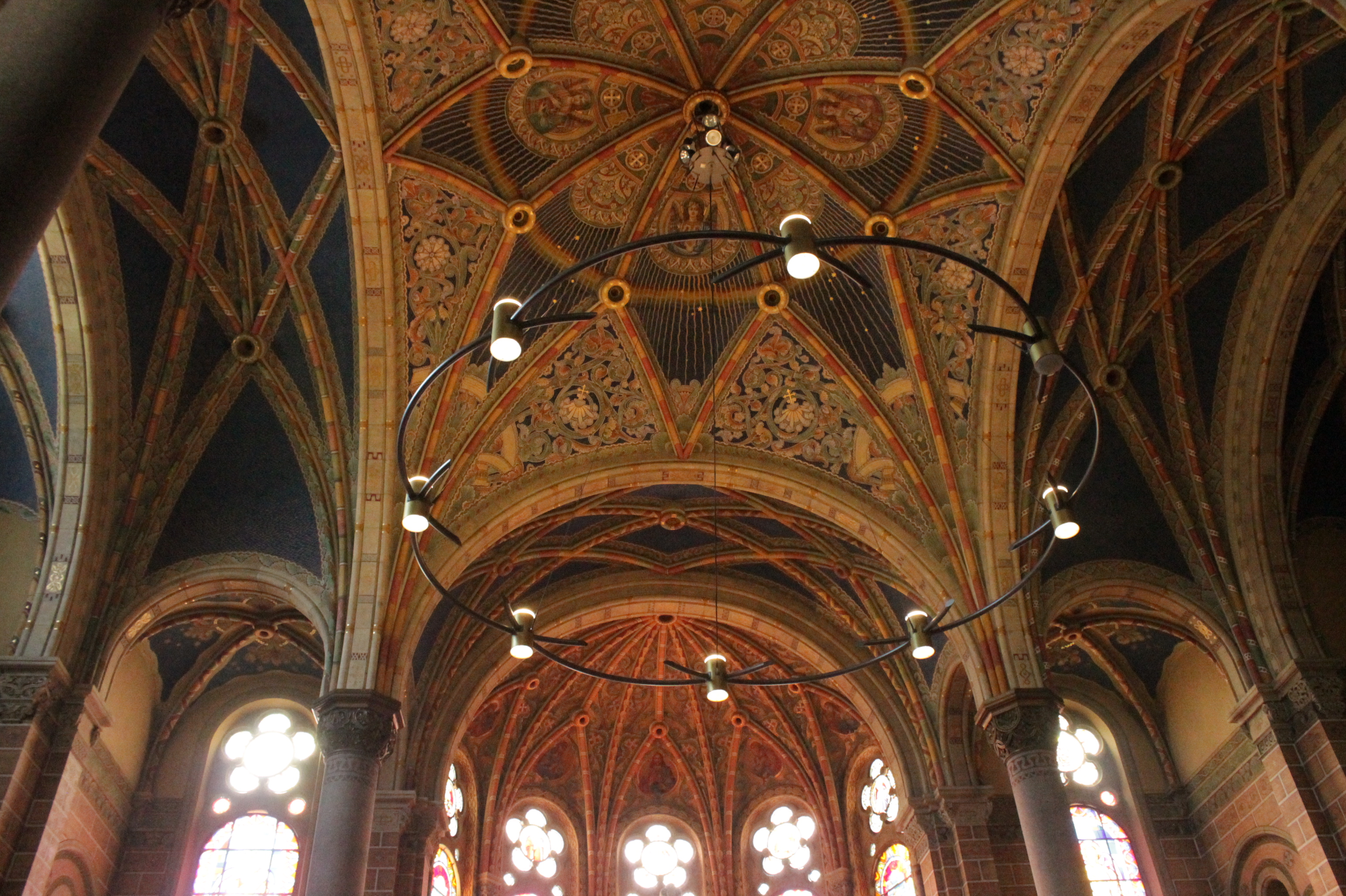 The ceiling of the Garnisonkirche St Martin in Dresden